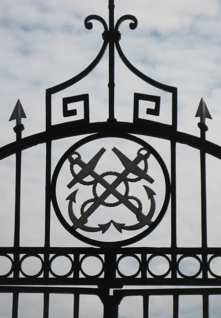 Ornamental gates to the steps down to the Thames, Deptford Strand, SE8. See 1492376.